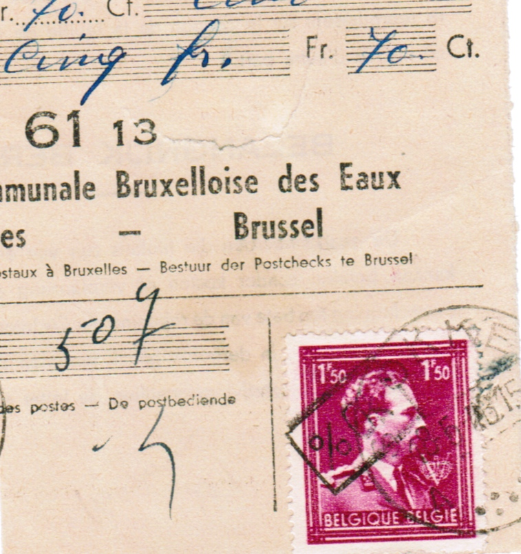 Example of a Belgian stamp that was devaluated after WW II by stamping it with a '-10%'. This devaluation was carried out in 1946